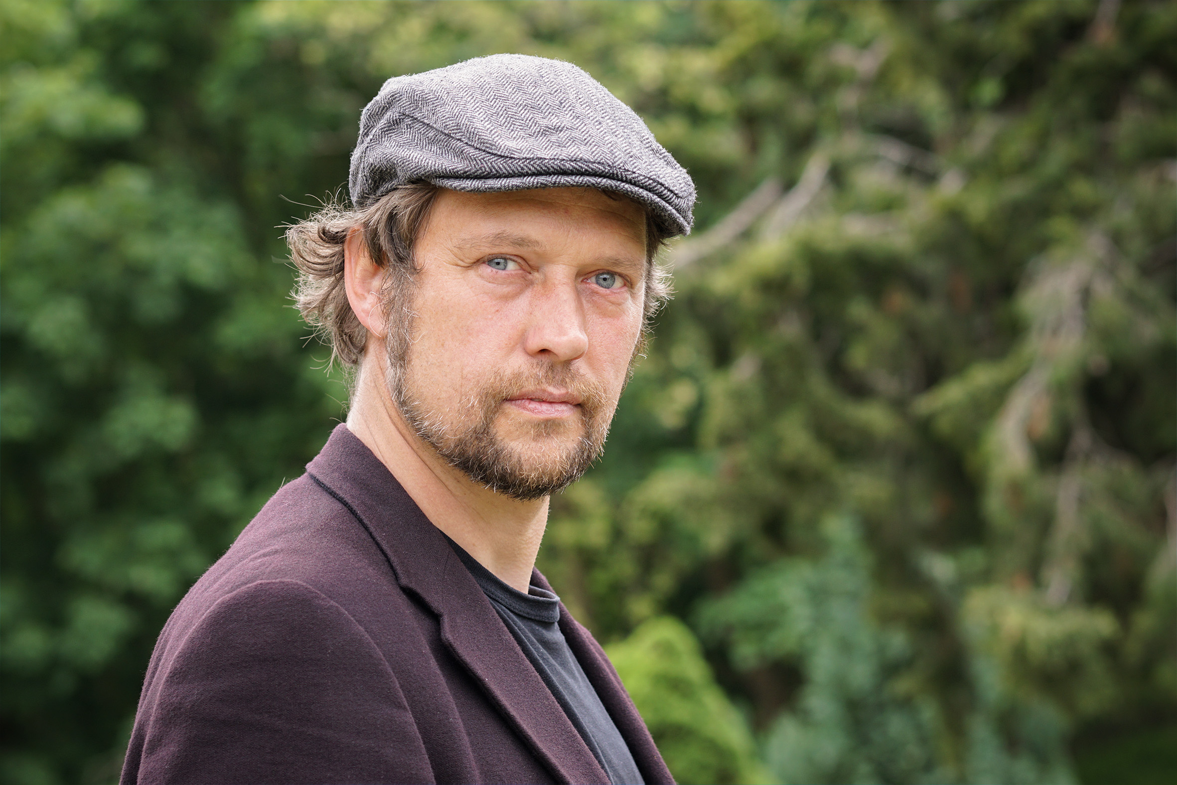 Menno Veldhuis Photo: Klaus D. Fahlbusch